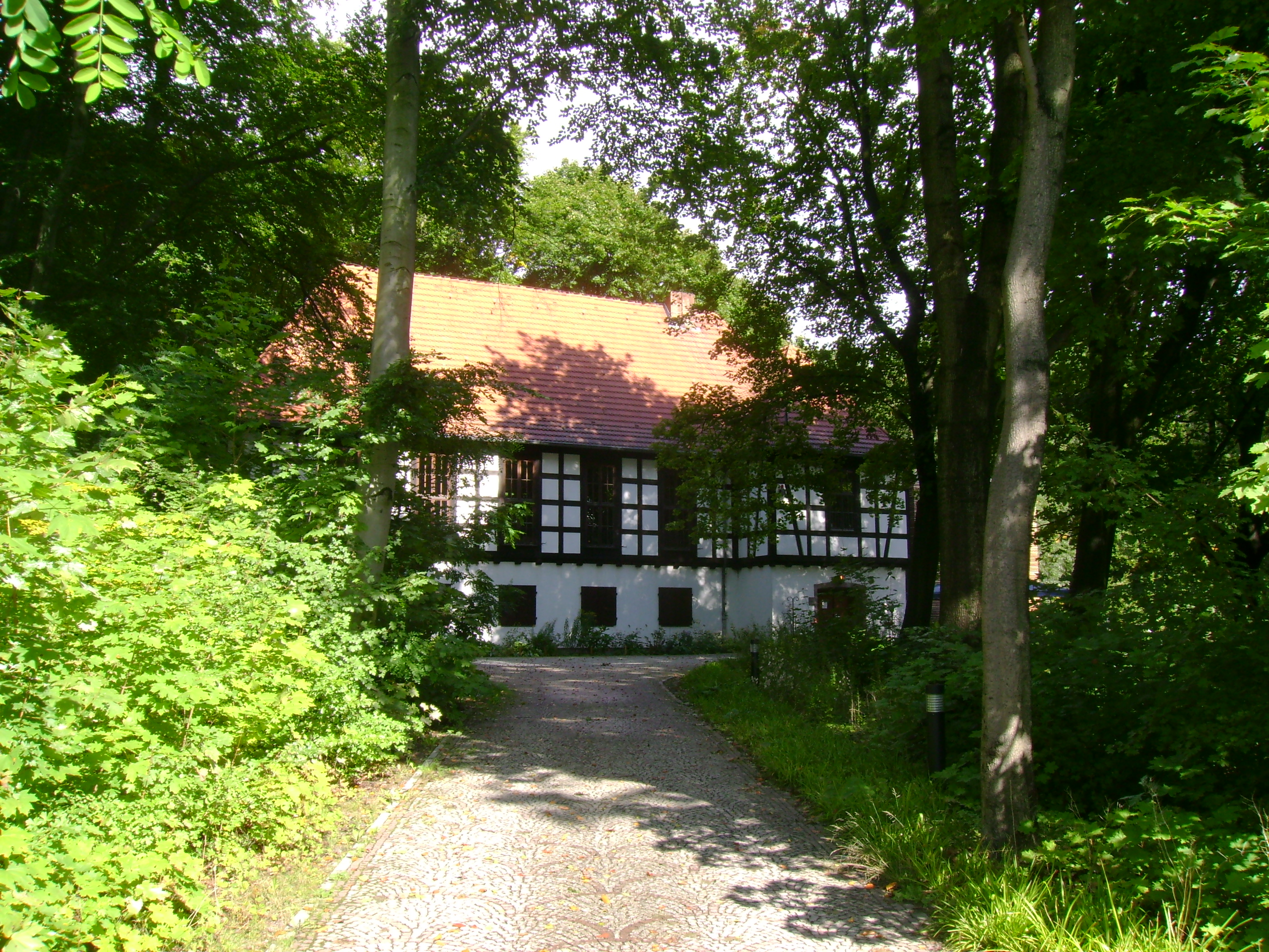 Ehemaliges Haus der Jugend in Berlin Wedding am Volkspark Rehberge am Dohnagestell 10